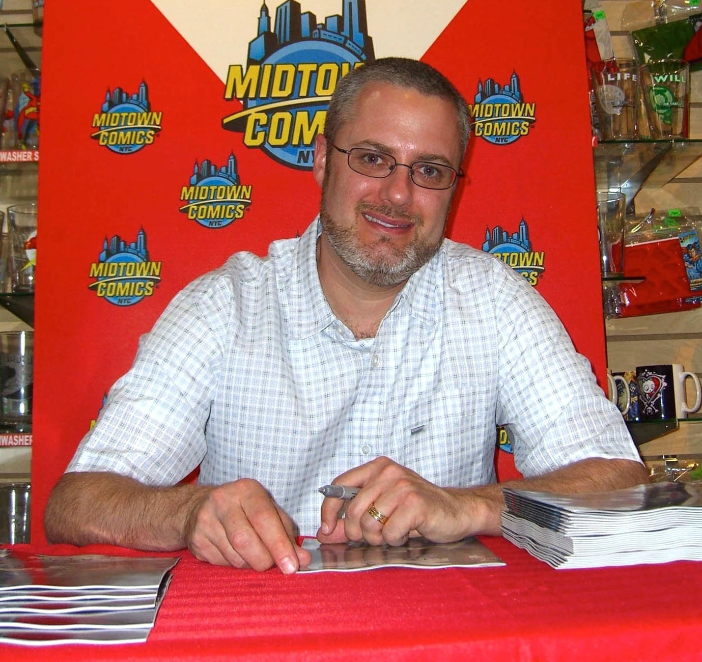 Comics writer Robert Venditti at a May 2, 2012 store signing for Valiant Comics' X-O Manowar Vol 3 #1 at Midtown Comics Downtown in Lower Manhattan. This photo was created by Luigi Novi. It is not in the public domain, and use of this file outside of the licensing terms is a copyright violation.